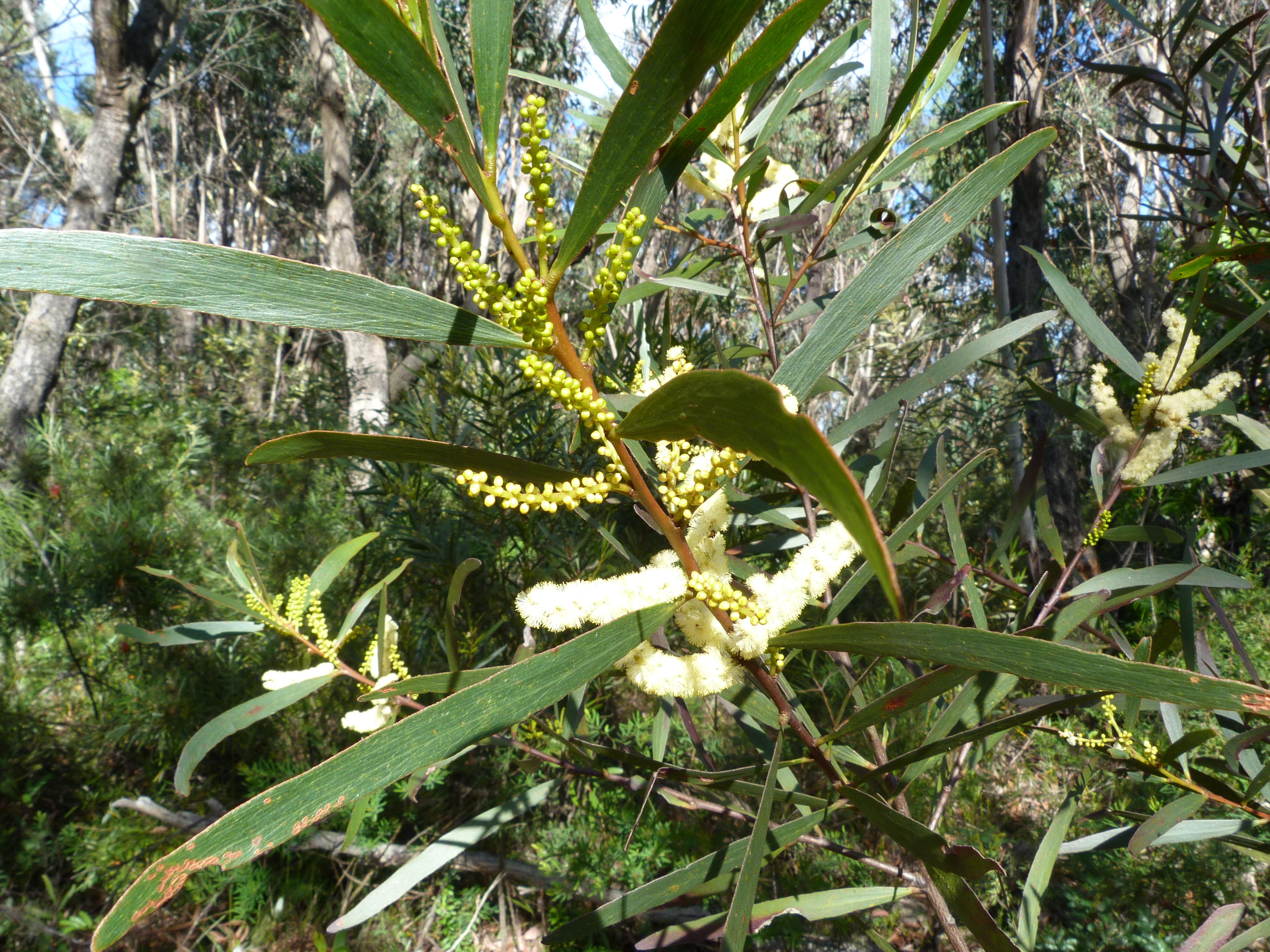 Acacia obtusifolia A.Cunn., Walls Cave Walk, Blackheath, NSW, 25 January 2011